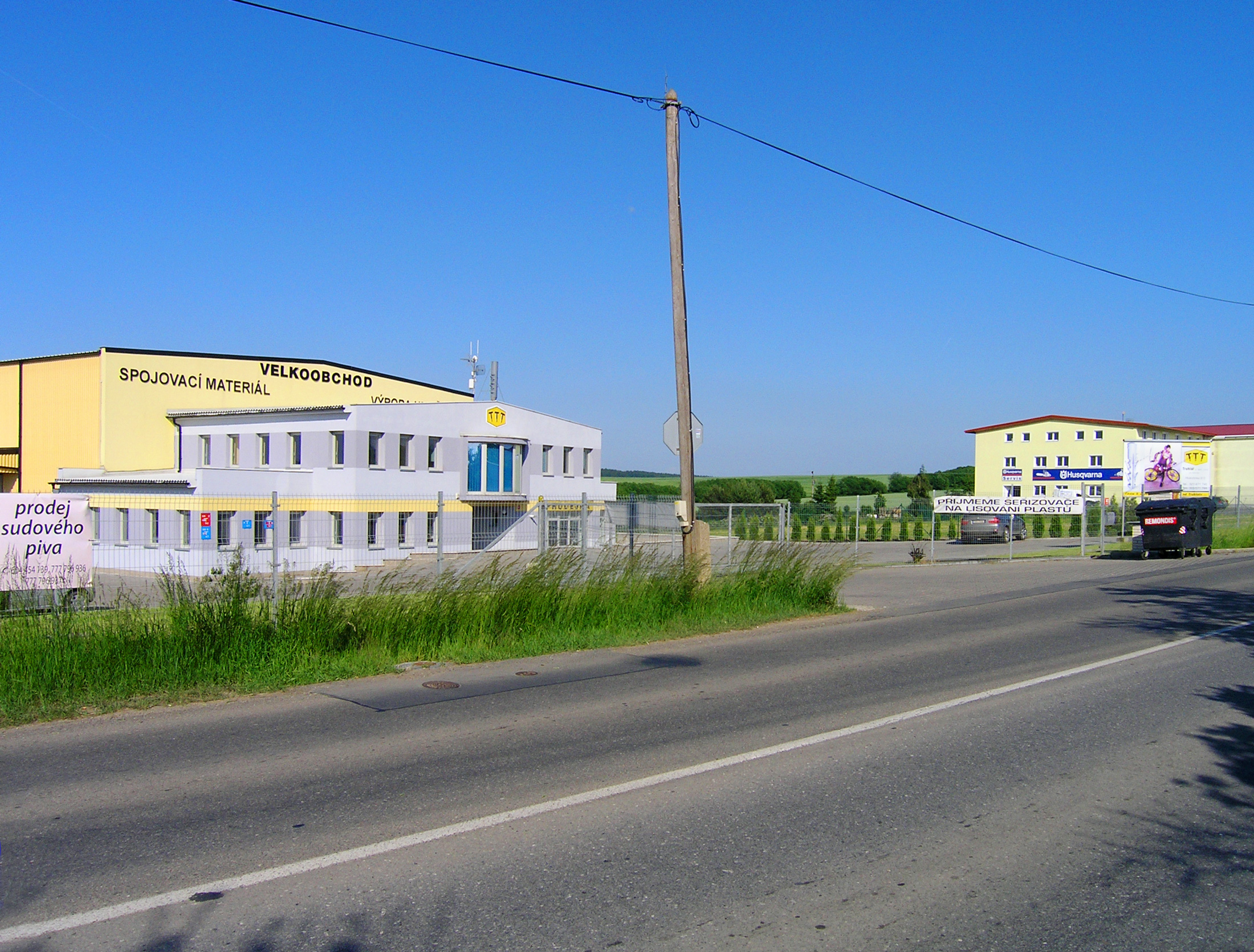 Hlubočinka, local part of Sulice, Czech Republic